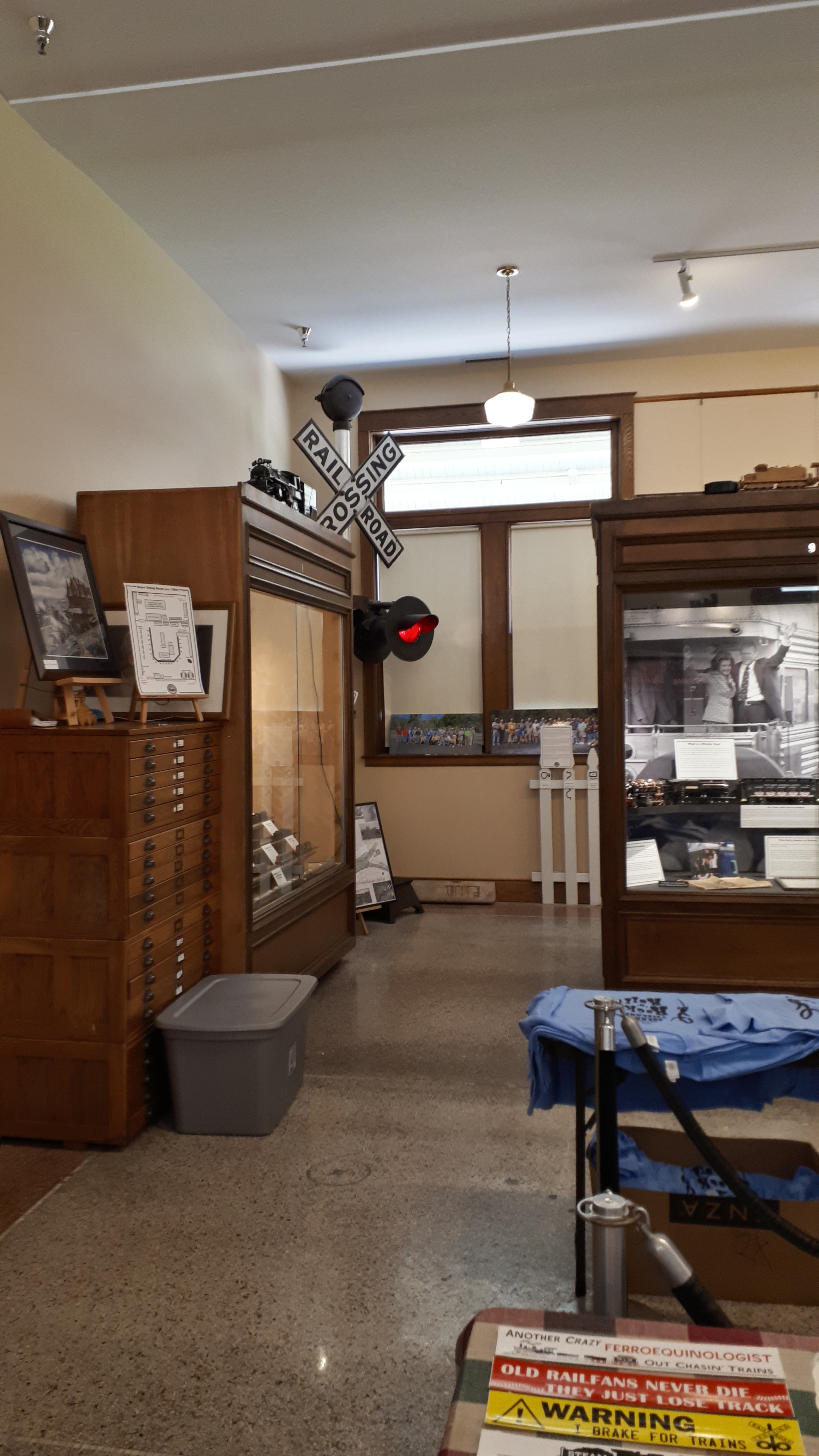 Museum area in the station, which was the lunch counter. On the floor, we can see the holes where the stools once were for the counter.